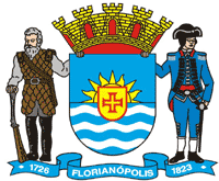 Flag of city of Florianópolis, Santa Catarina